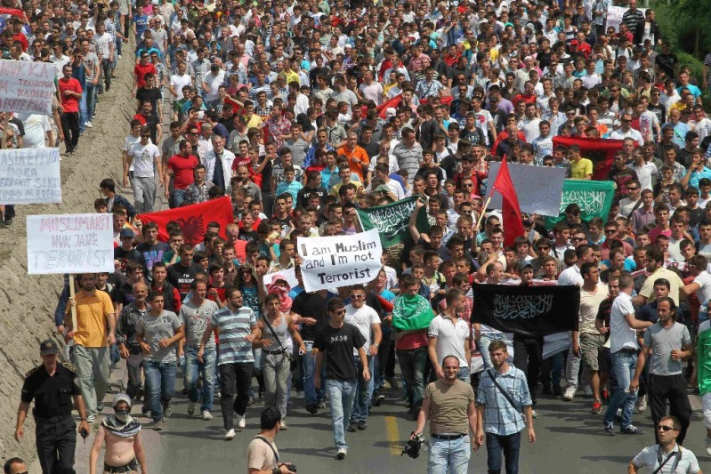 Albanian Protesters holding a sign stating, "I am Muslim I am not a terrorist" and holding the Black Flag of Jihad